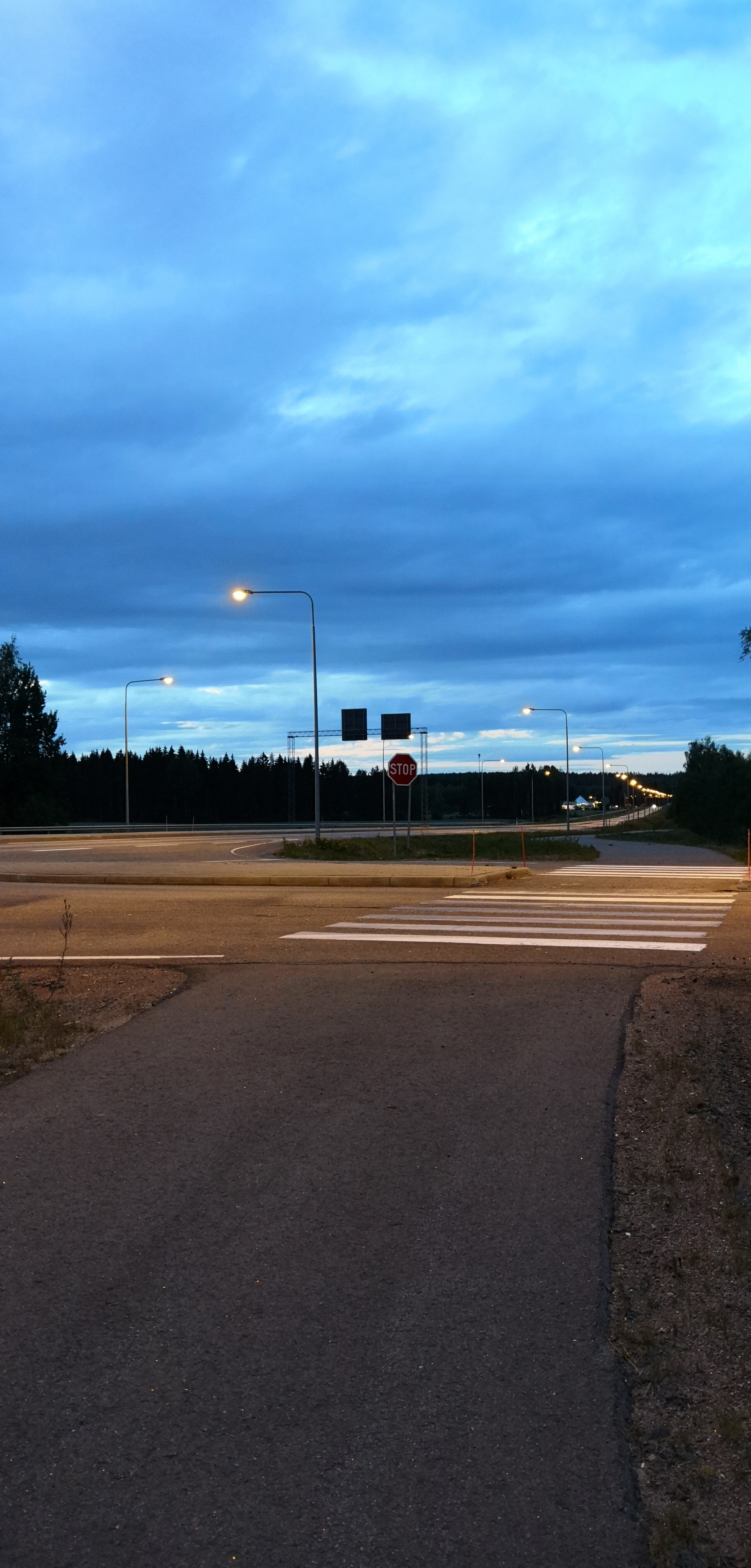 Main road 15 in Valkeala, Kouvola, Finland.